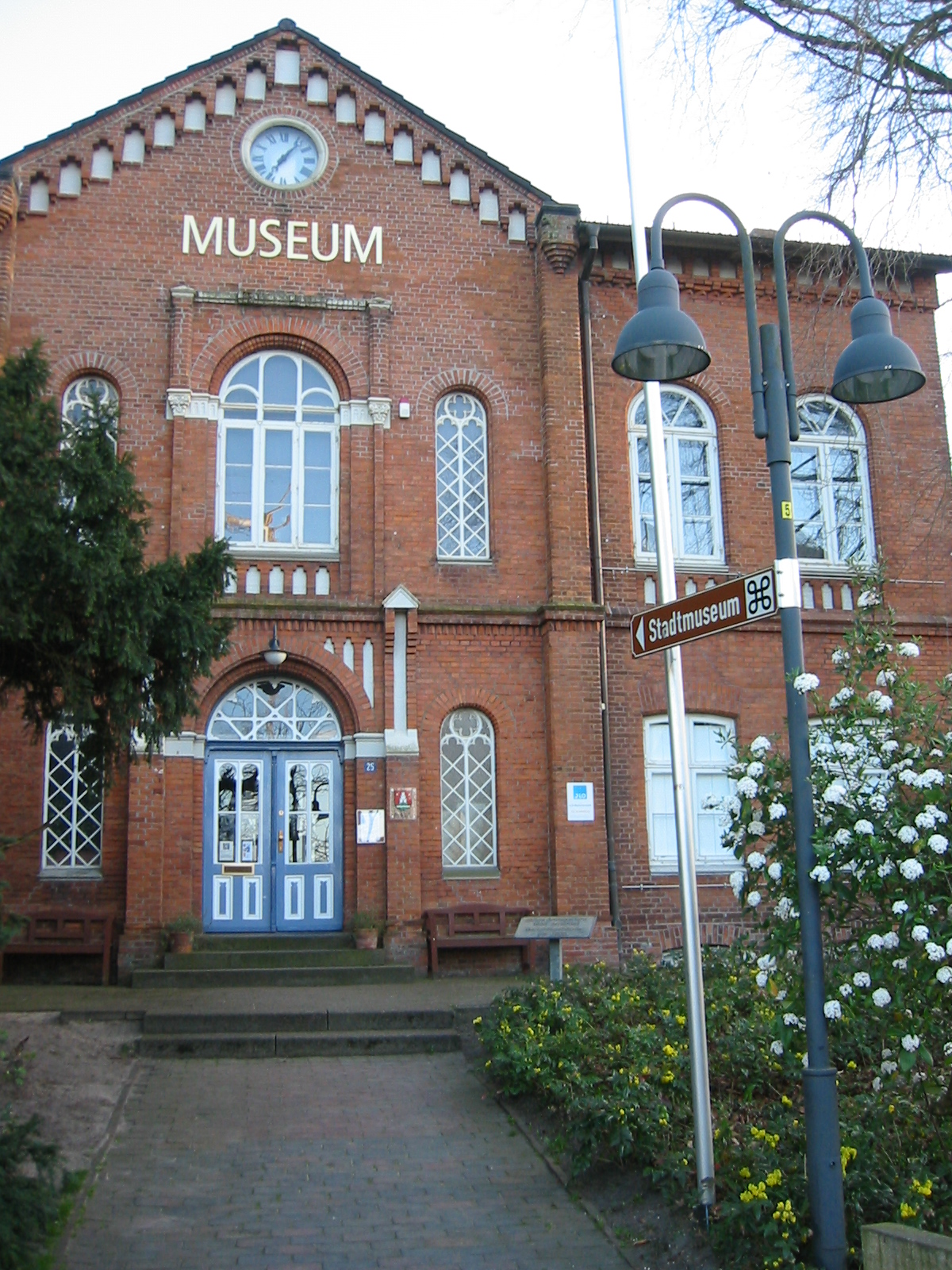 City Museum, Pinneberg-Germany